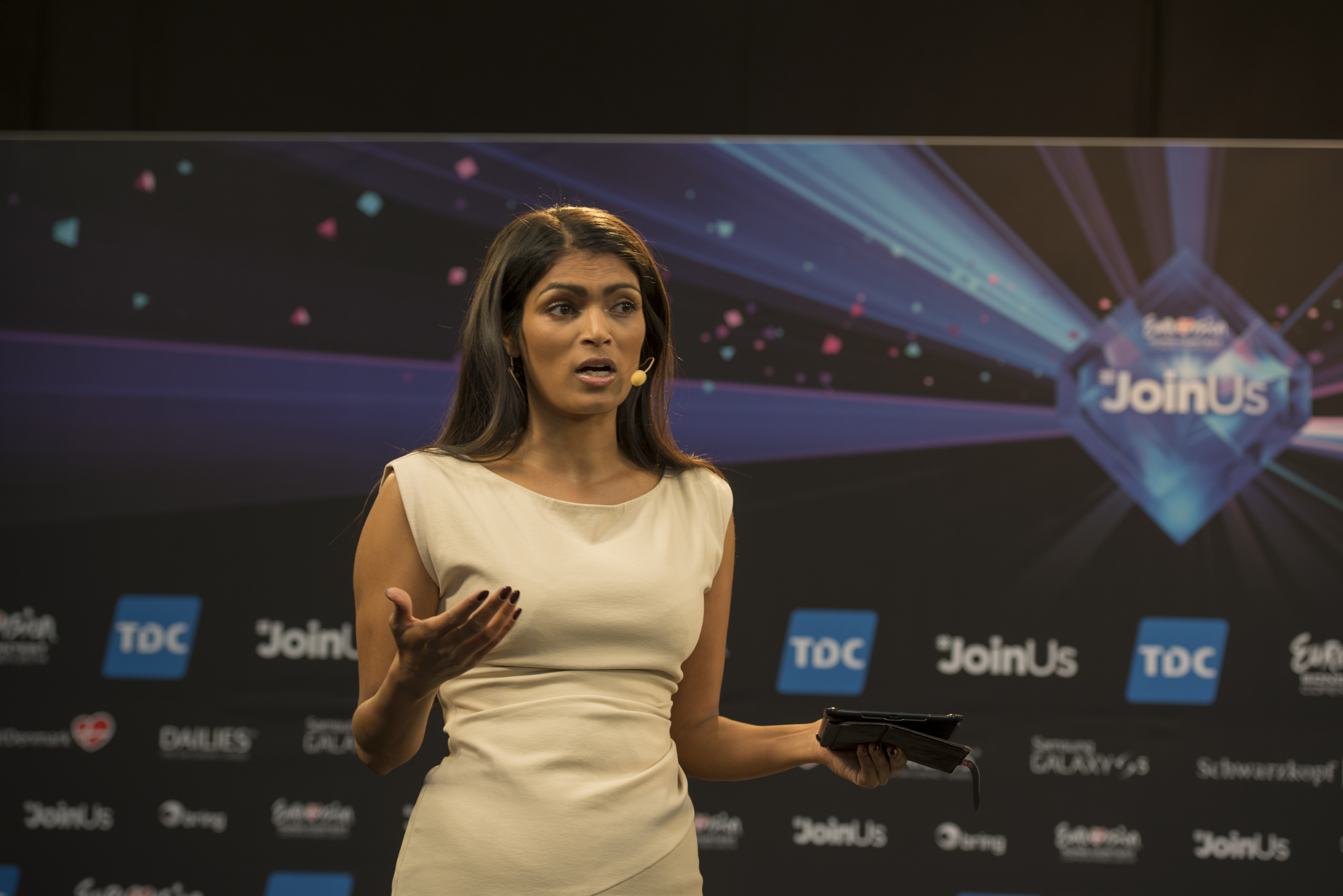 Ulla Essendrop hosting a Meet & Greet in the press centre for the Eurovision Song Contest 2014.